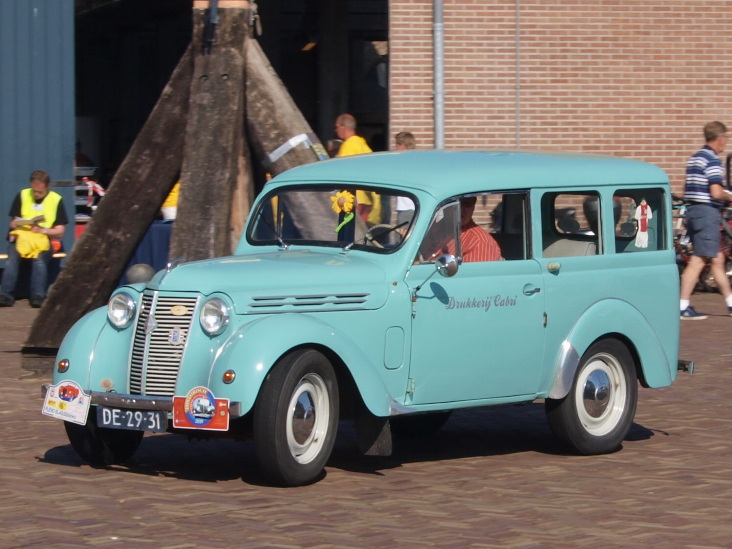 Photographed at Den Helder, The Netherlands. OLYMPUS DIGITAL CAMERA